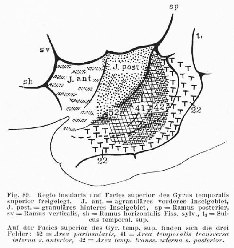 Brodmann areas inside of lateral sulcus.